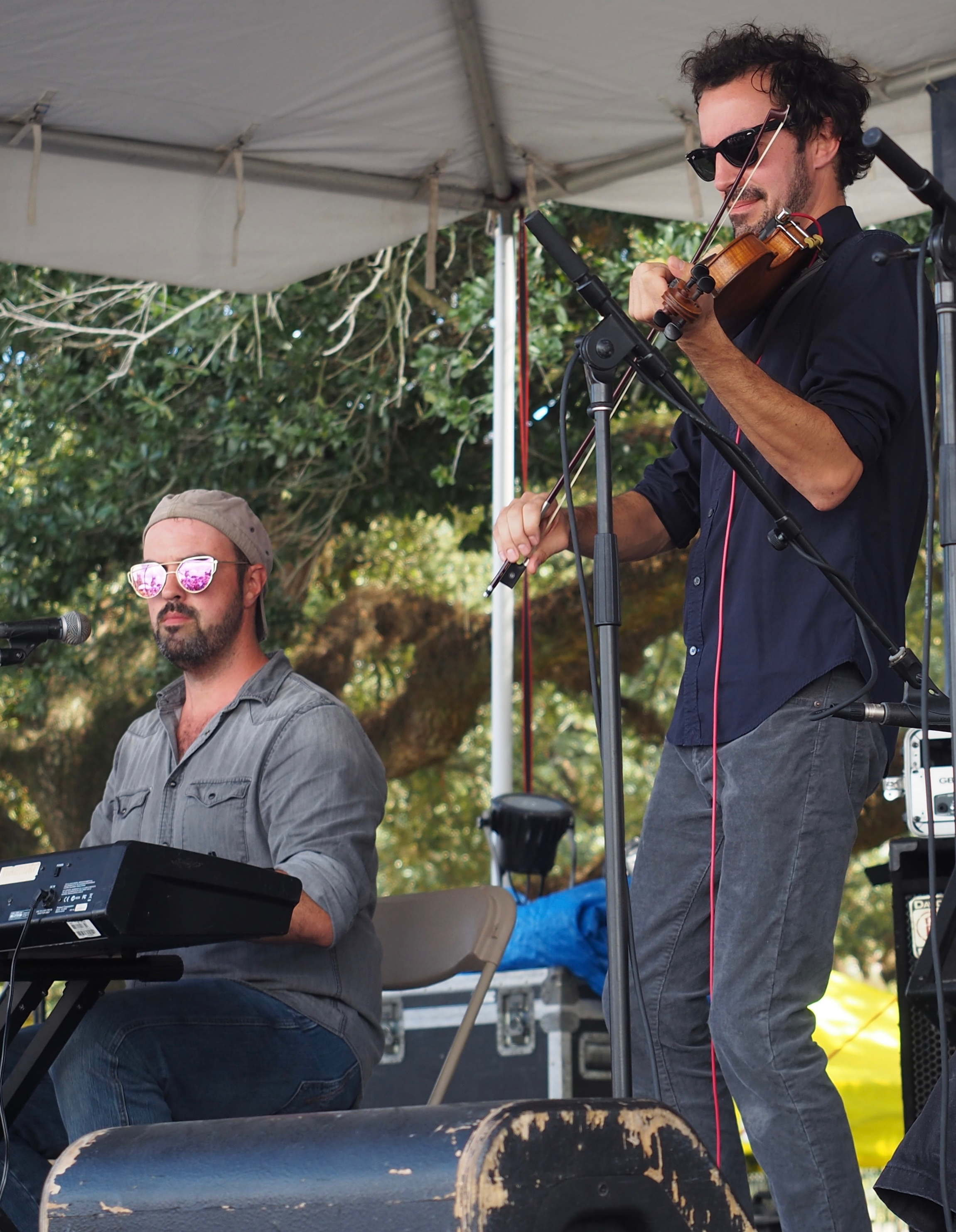 Wilson and Joel Savoy performing at Festivals Acadiens et Creoles in Lafayette, LA on October 14, 2018.